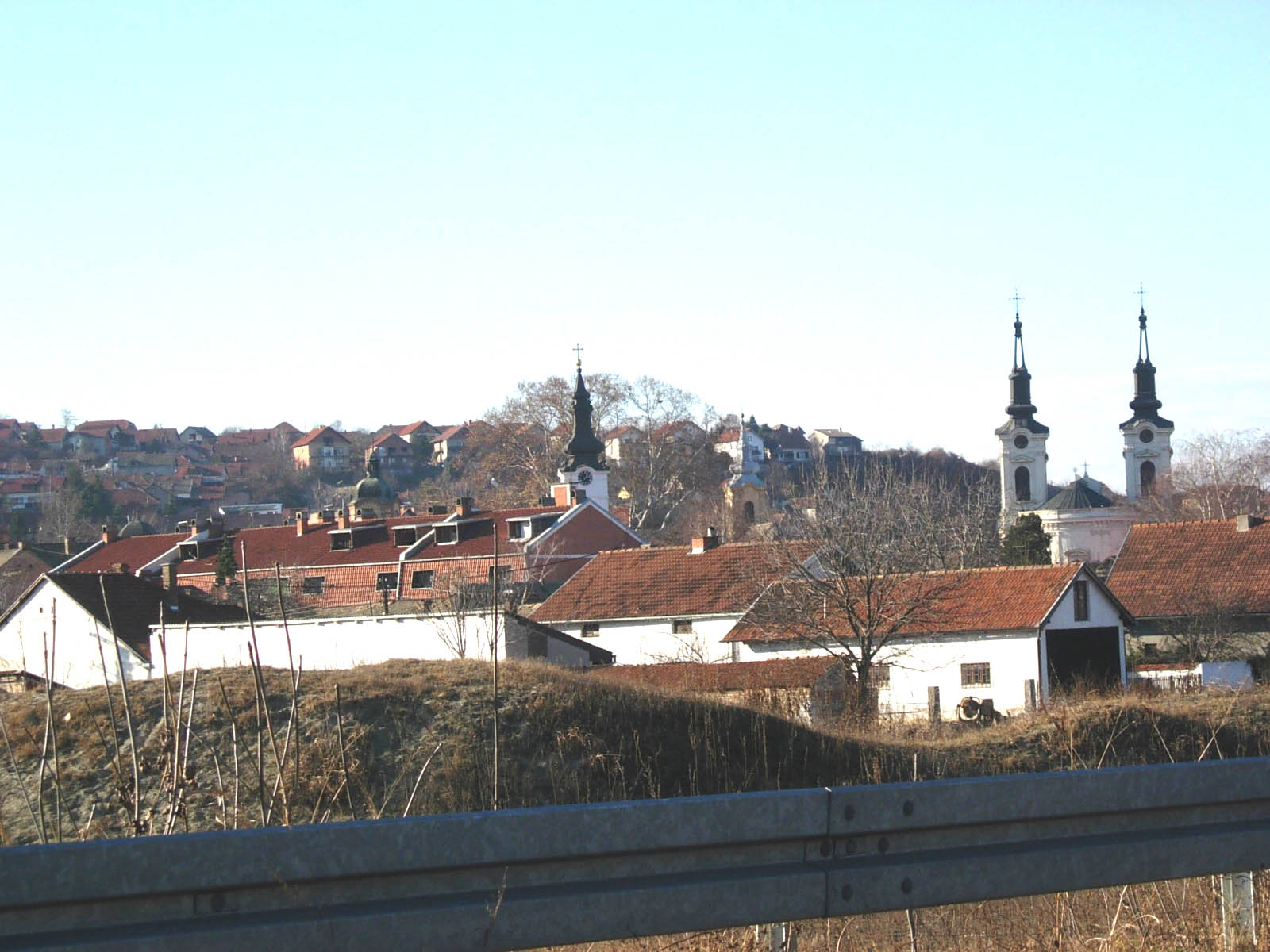 View of Sremski Karlovci.